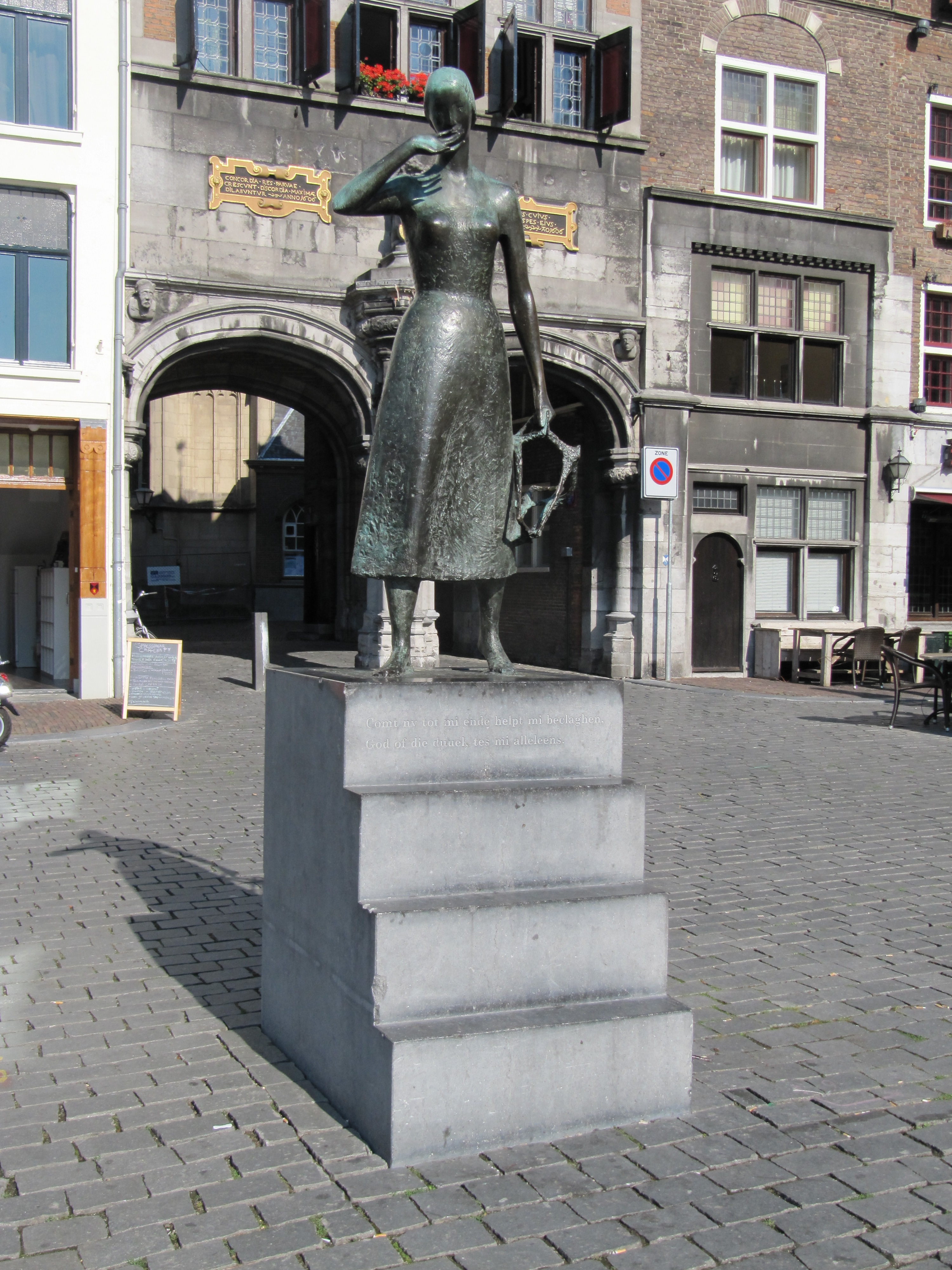 Statue "Mariken van Nieumeghen" by Vera van Hasselt at the Grote Markt in Nijmegen, The Netherlands